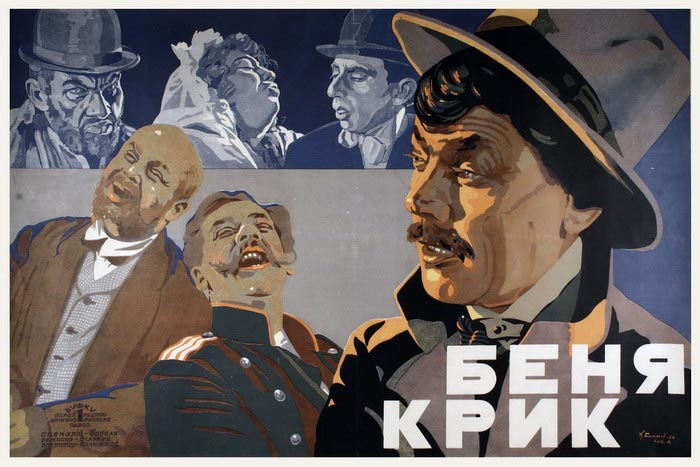 Film poster Benya Krik (1926).